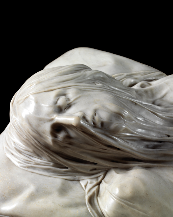 Cristo Velato Volto